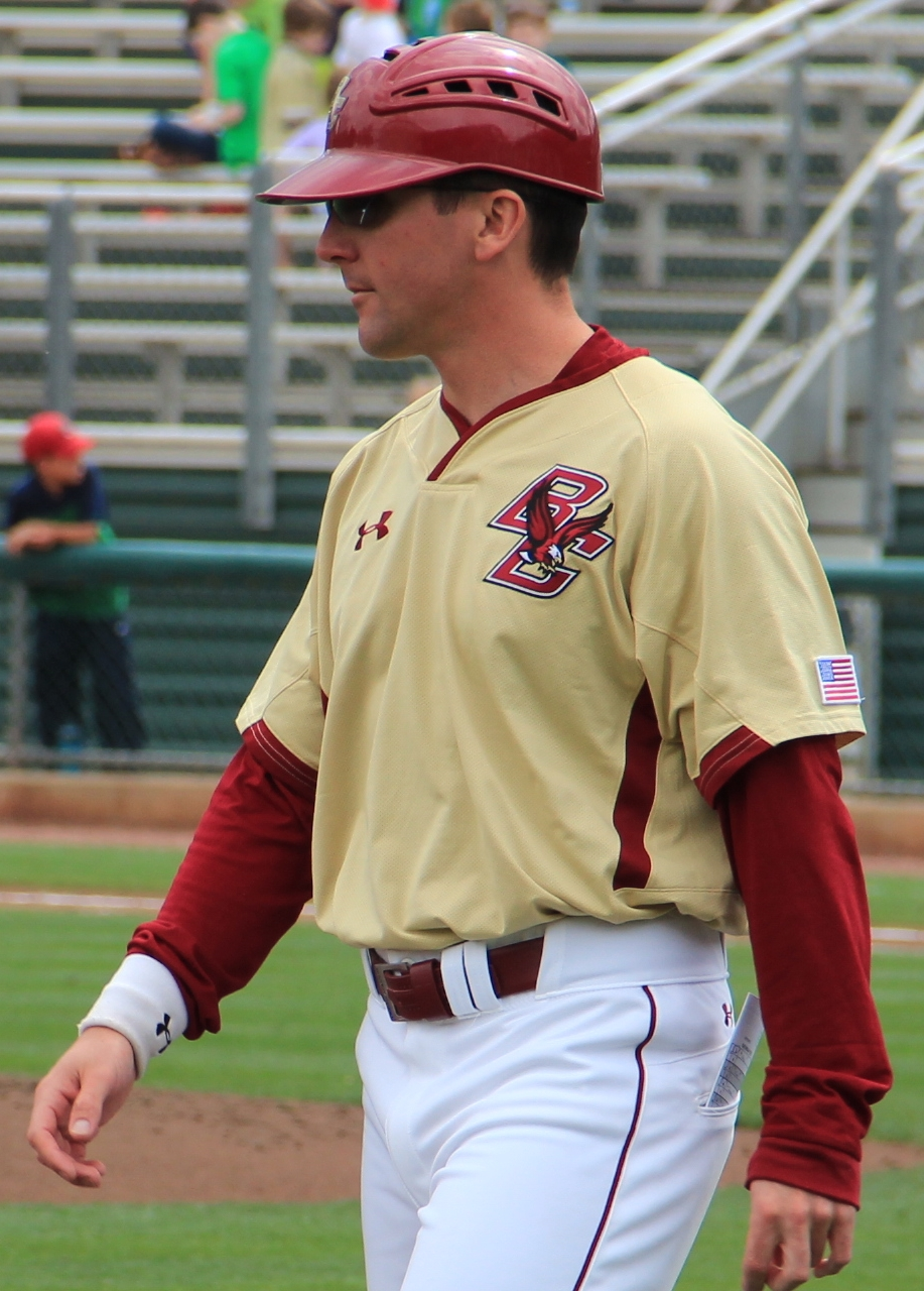 Boston College Eagles baseball coach Mike Gambino, 2013.